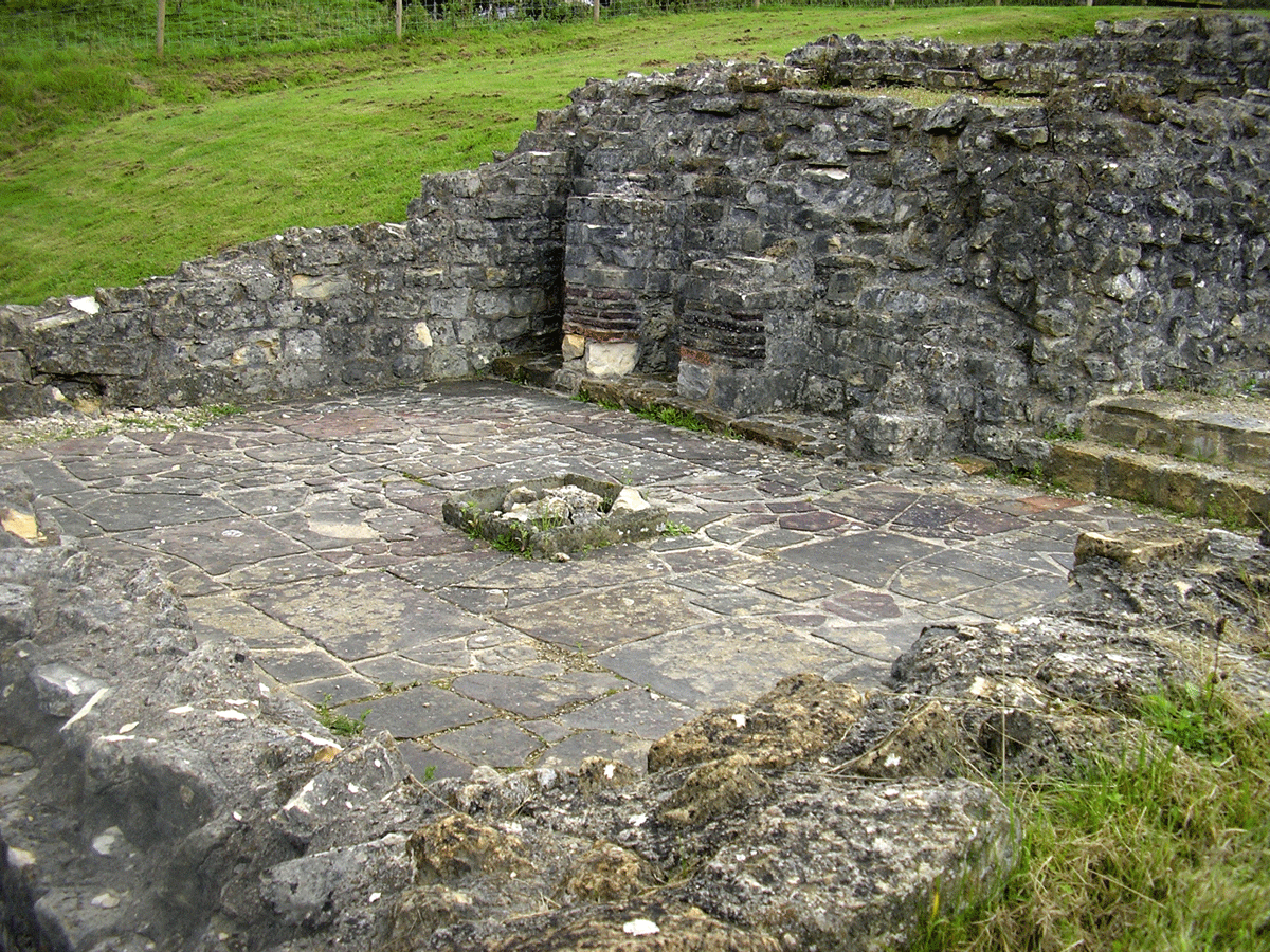 The remains of the temple room at Great Witcombe Roman Villa.